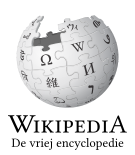 Wikipedia logo 2.0 (li)